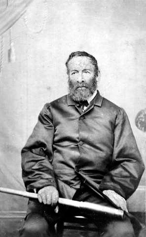 Robert Hoddle, from the State Library of Victoria.